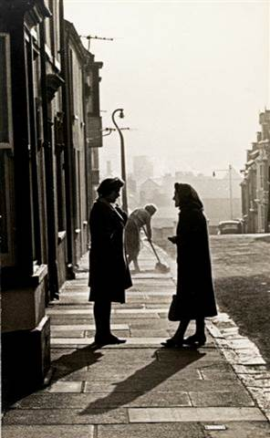 High Street, Aberystwyth, Photographed by Gwyn MartinCymraeg: Y stryd Fawr, Aberystwyth. Gan by Gwyn Martin